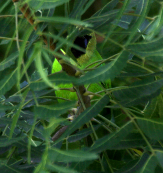 Blue-winged Leafbird Chloropsis cochinchinensis - Hindi: Harewa, Sans: Patragupt, Cachar: Dao-bulip gurrimo, Guj: Jerdon-no harevo, Lilo harevo, Mar: Harewa, Te: Wanna bojanum, Te: Pachchaku pitta, Mal: Ilakili, Kan: Yele hakki, Sinh: Nil-kurulla, Gira-kurulla- in Narsapur, Medak district, Andhra Pradesh, India.